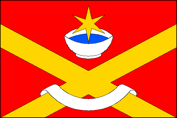 Municipal flag of Hovorčovice village, Prague-East District, Czech Republic.